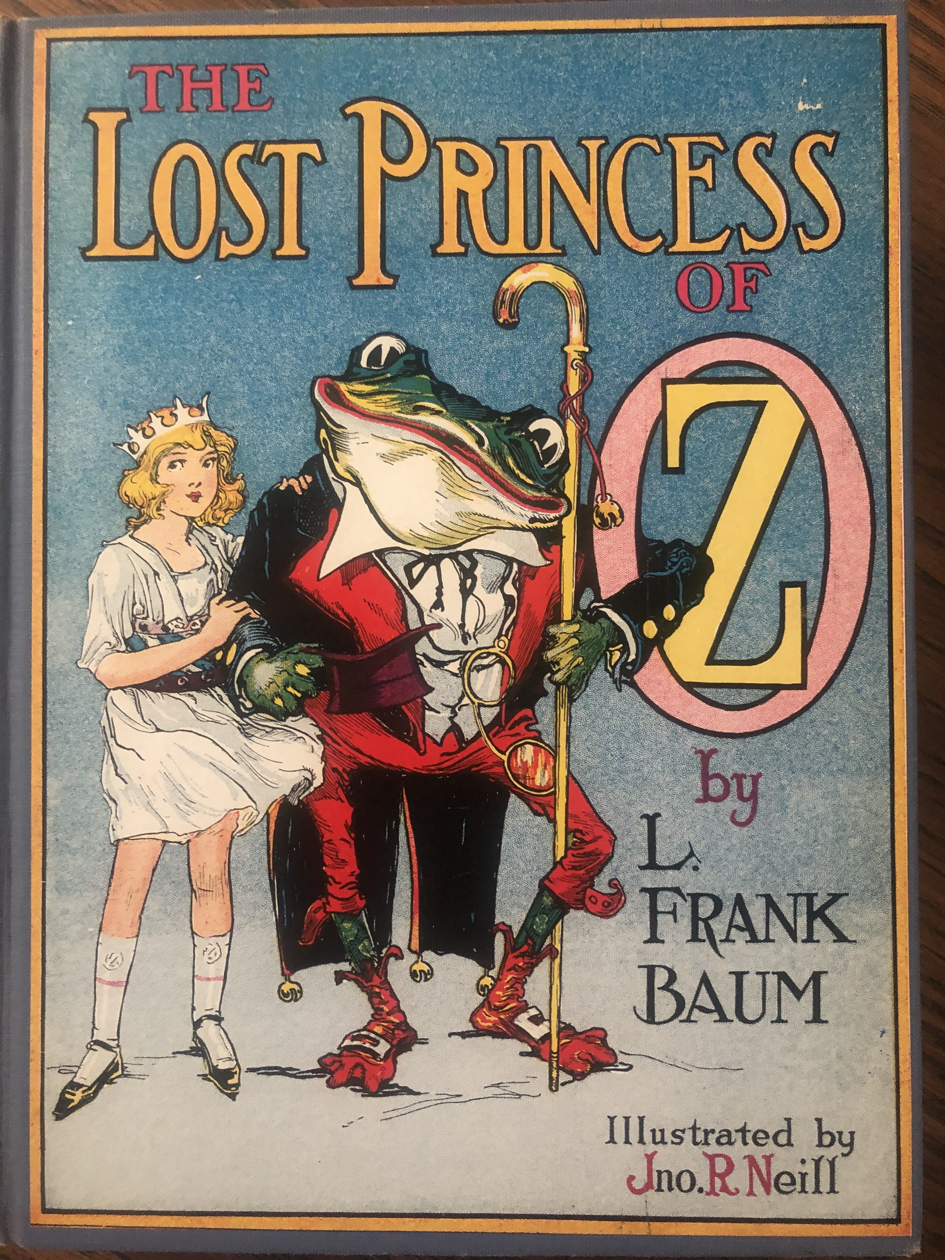 Neill's cover for The Lost Princess of Oz (1917)